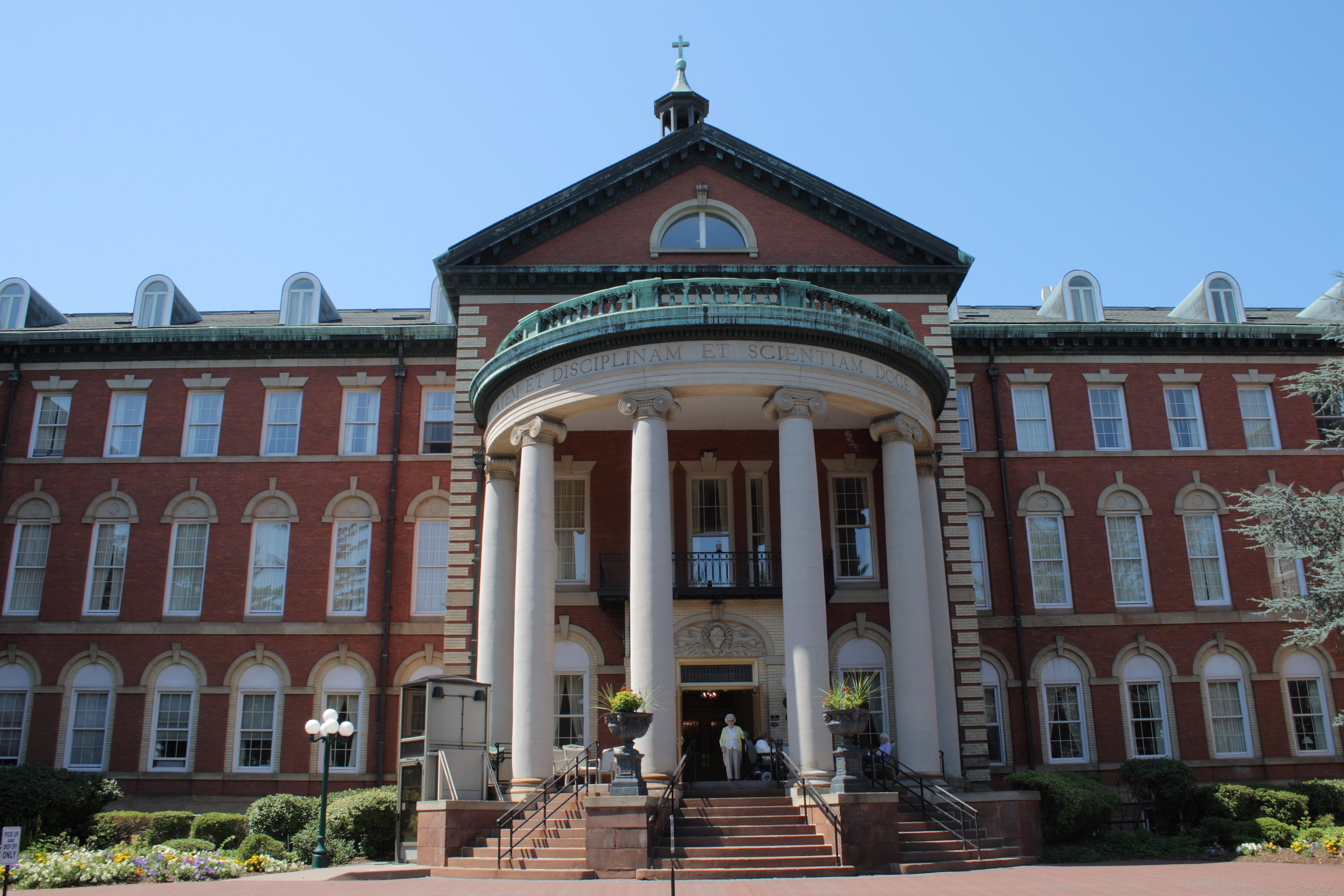 The former site of the Mount St. Joseph Academy, 235 Fern St., a Registered Historic Place in West Hartford, Connecticut. It is now the site of Atria Senior Living.